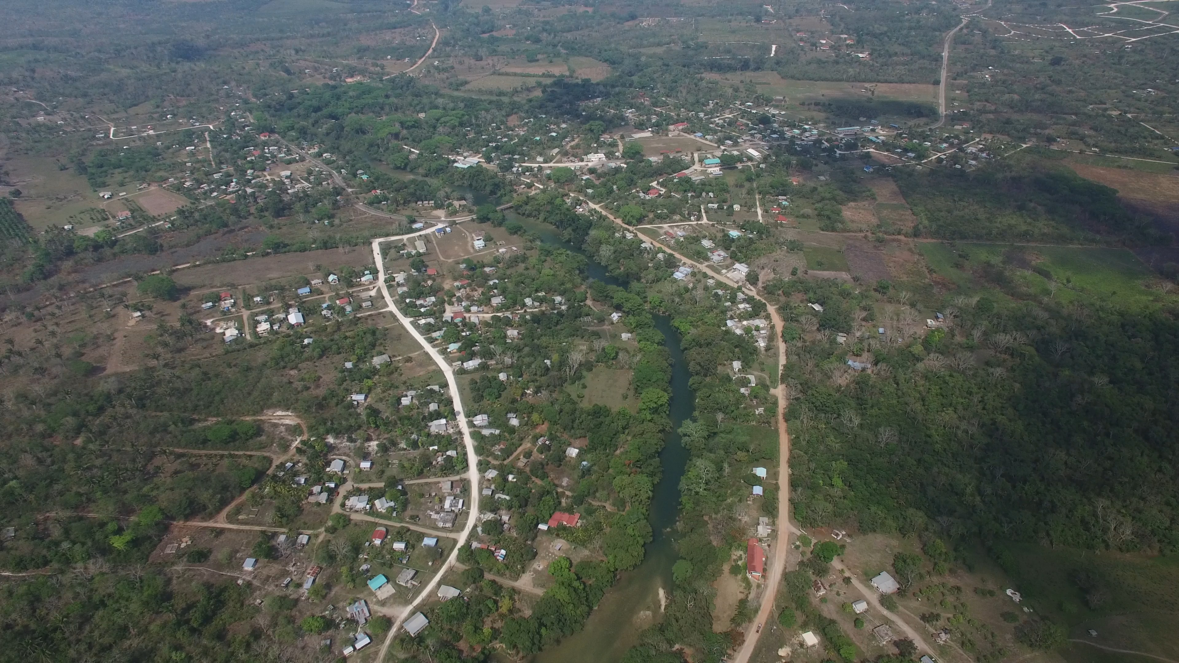 Aerial photograph of Bullet Tree Falls showing the Mopan River